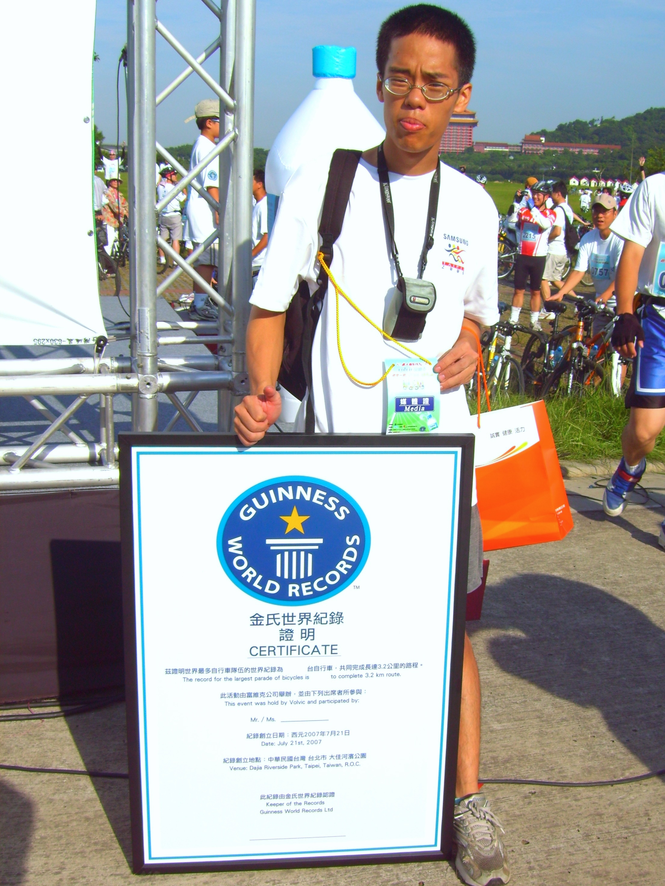 Rico "Brock" Shen at "2007 Ten Thousand People for BIKE" Guinness World Record Challenge.